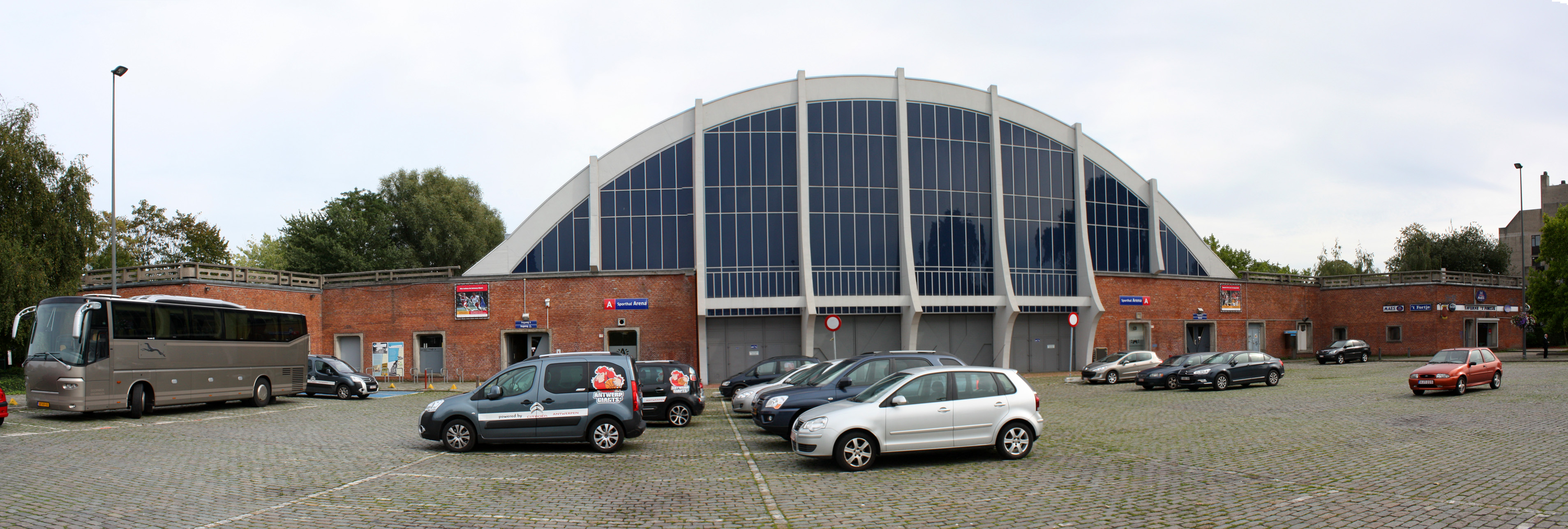 Sports center Arena in Antwerp, Belgium